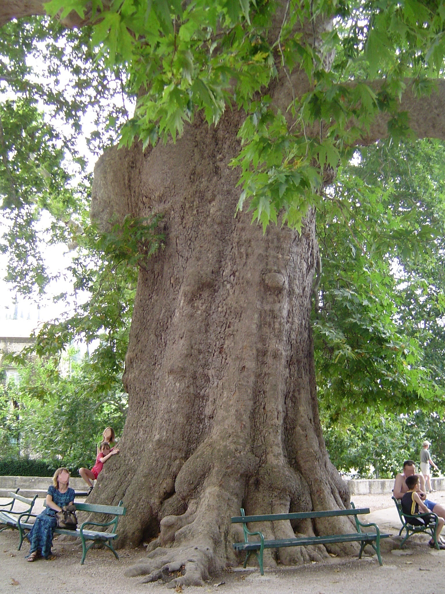 Platanus in Trsteno, Croatia. Planted in XV century.